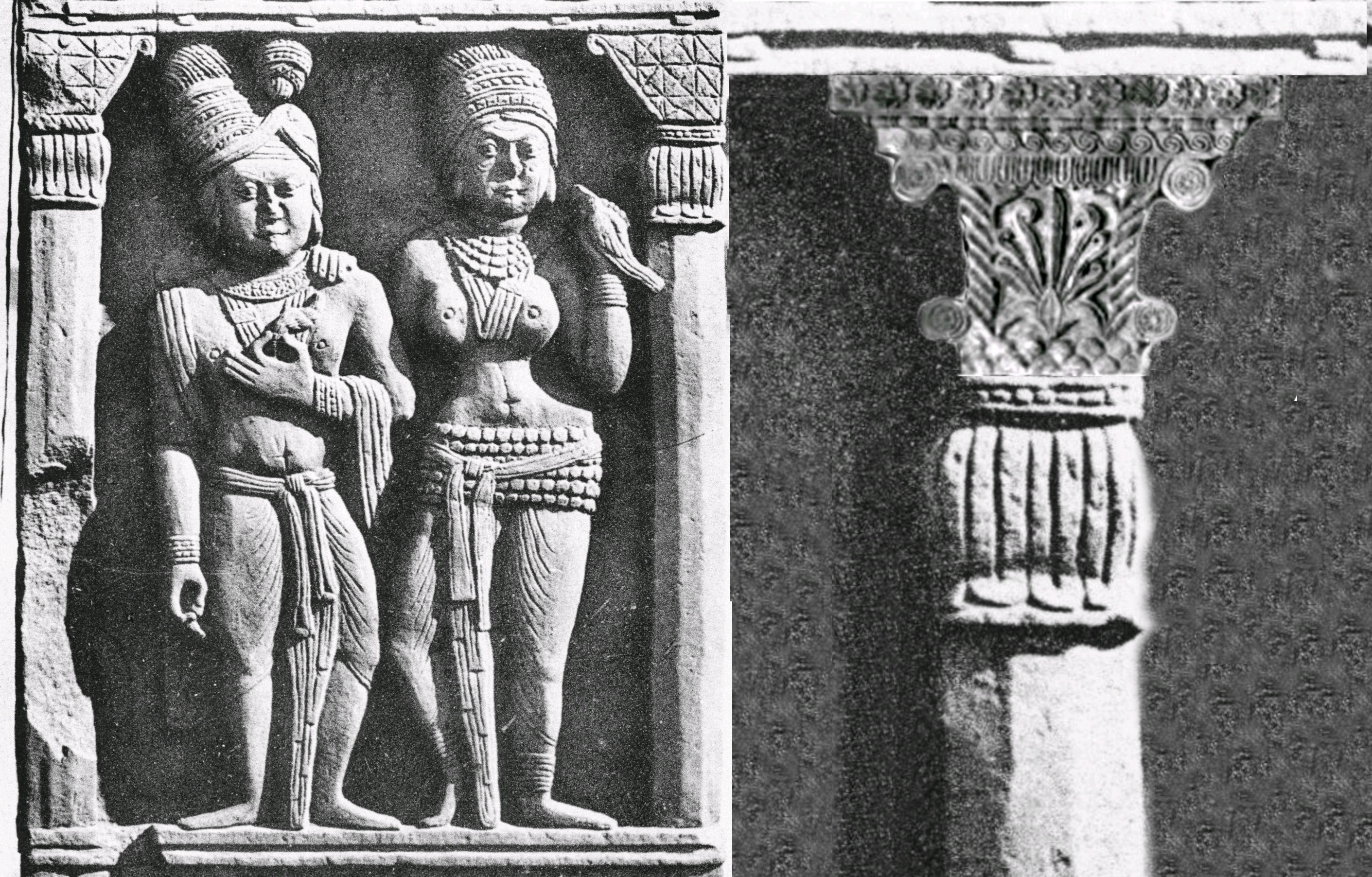 Simulation of the Pataliputra capital in the configuration of the pillar capitals shown at Bharhut.